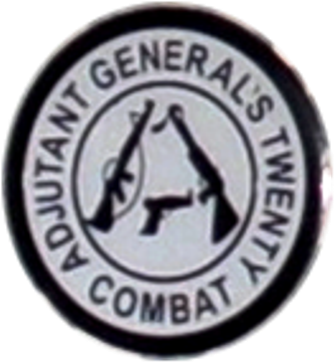 Missouri National Guard Adjutant General's Twenty Combat Badge